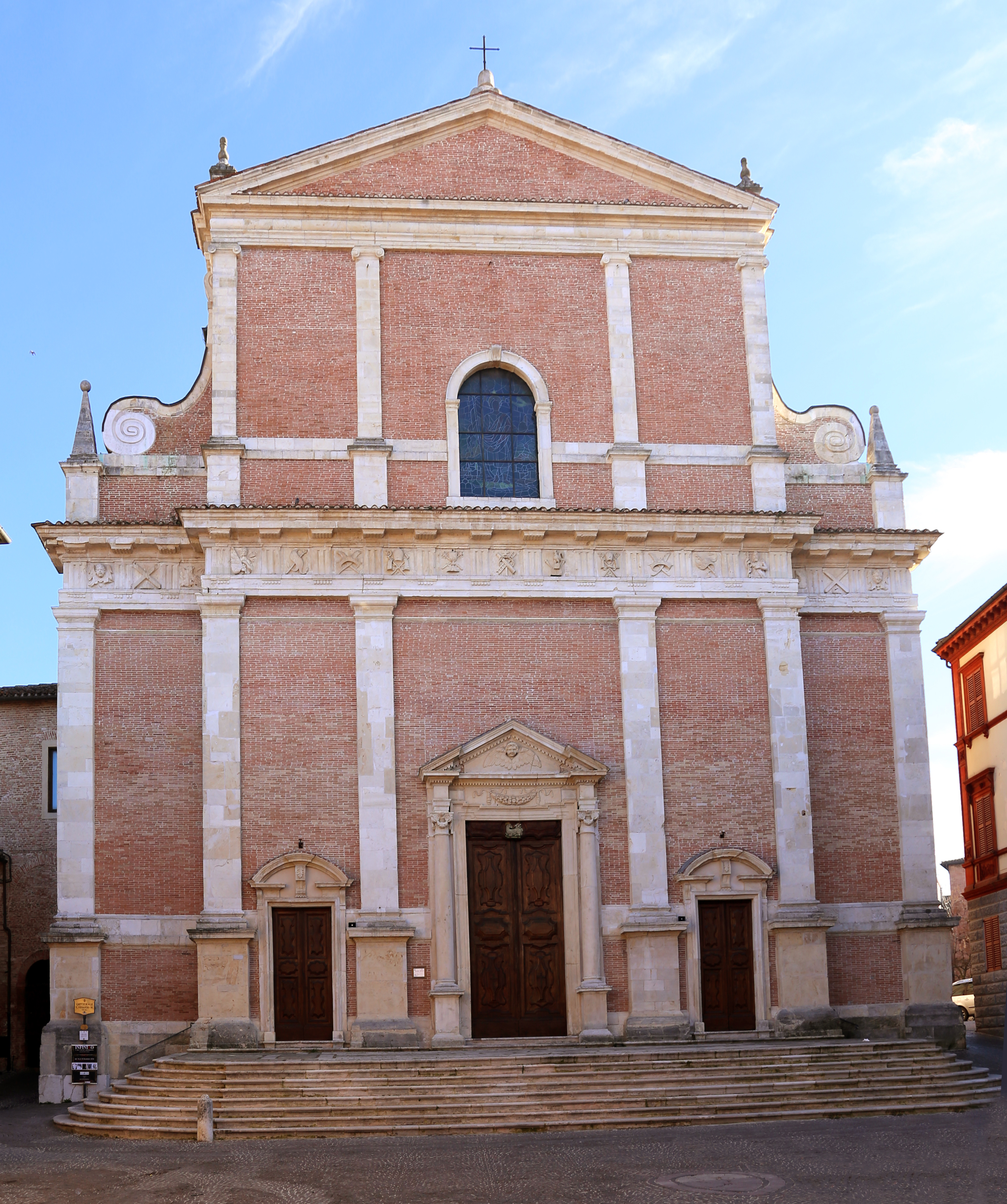 Fabriano